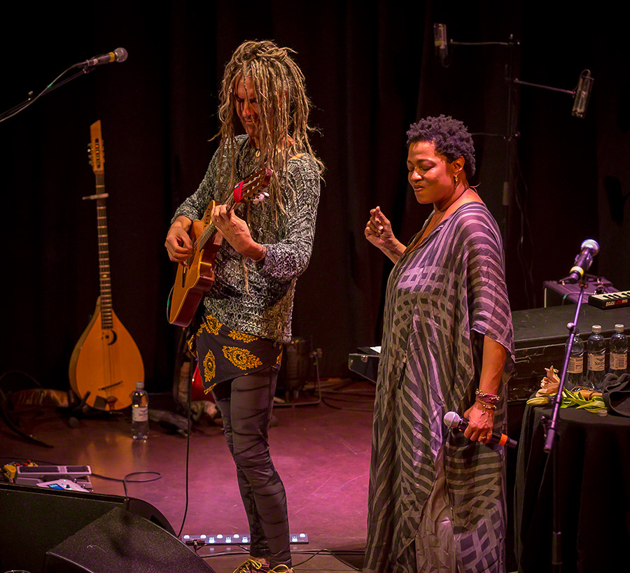 Lisa Fischer and Grand Baton performs at Cosmopolite in Oslo on 12. May 2016. Lineup:JC Maillard (guitar)Thierry Arpino (drums)Aidan Carroll (bass)Lisa Fischer (vocal)